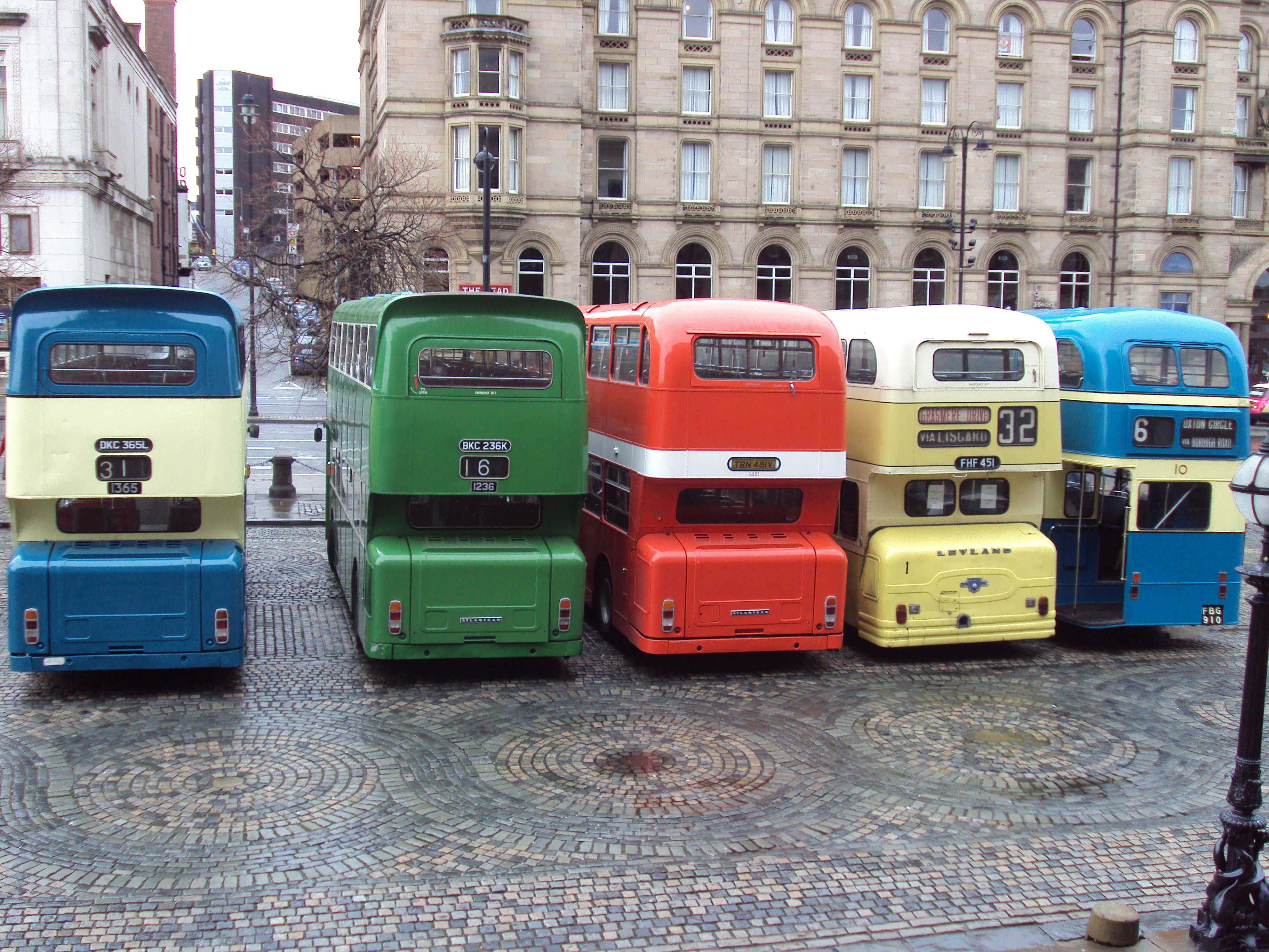 Photo taken at the Merseyside Passenger Transport Executive 40th anniversary event at St Georges Plateau, Liverpool.